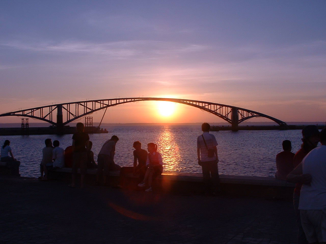 Photo taken by Lukacs.